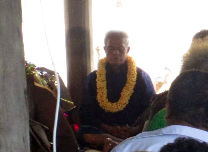 The king Sea